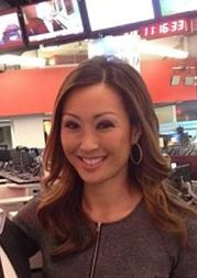 Amara Walker, in 2014